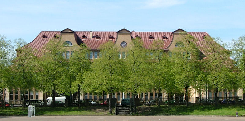 The front of the Leibniz-Gymnasium in Stuttgart-Feuerbach photographed in April 2008.